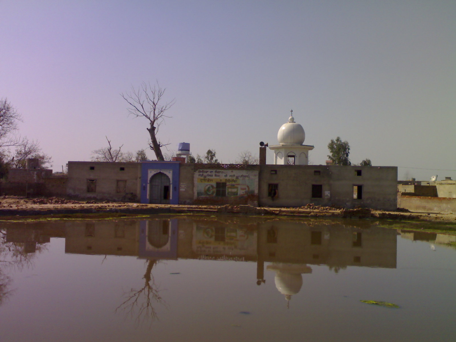 I (wikiuser:Shemaroo aka Sivender Singh of Rawla Mandi) have taken and uploaded this image.Here you can see Dera of Village Sikhwala. Shemaroo (talk) 12:48, 18 February 2012 (UTC)